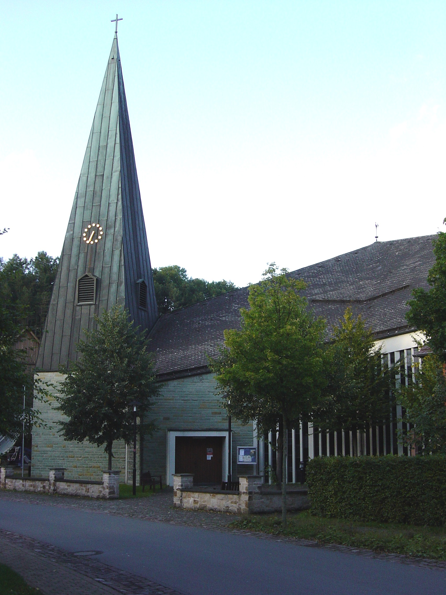 Catholic Church St. Marien Lütmarsen, Höxter (Germany)